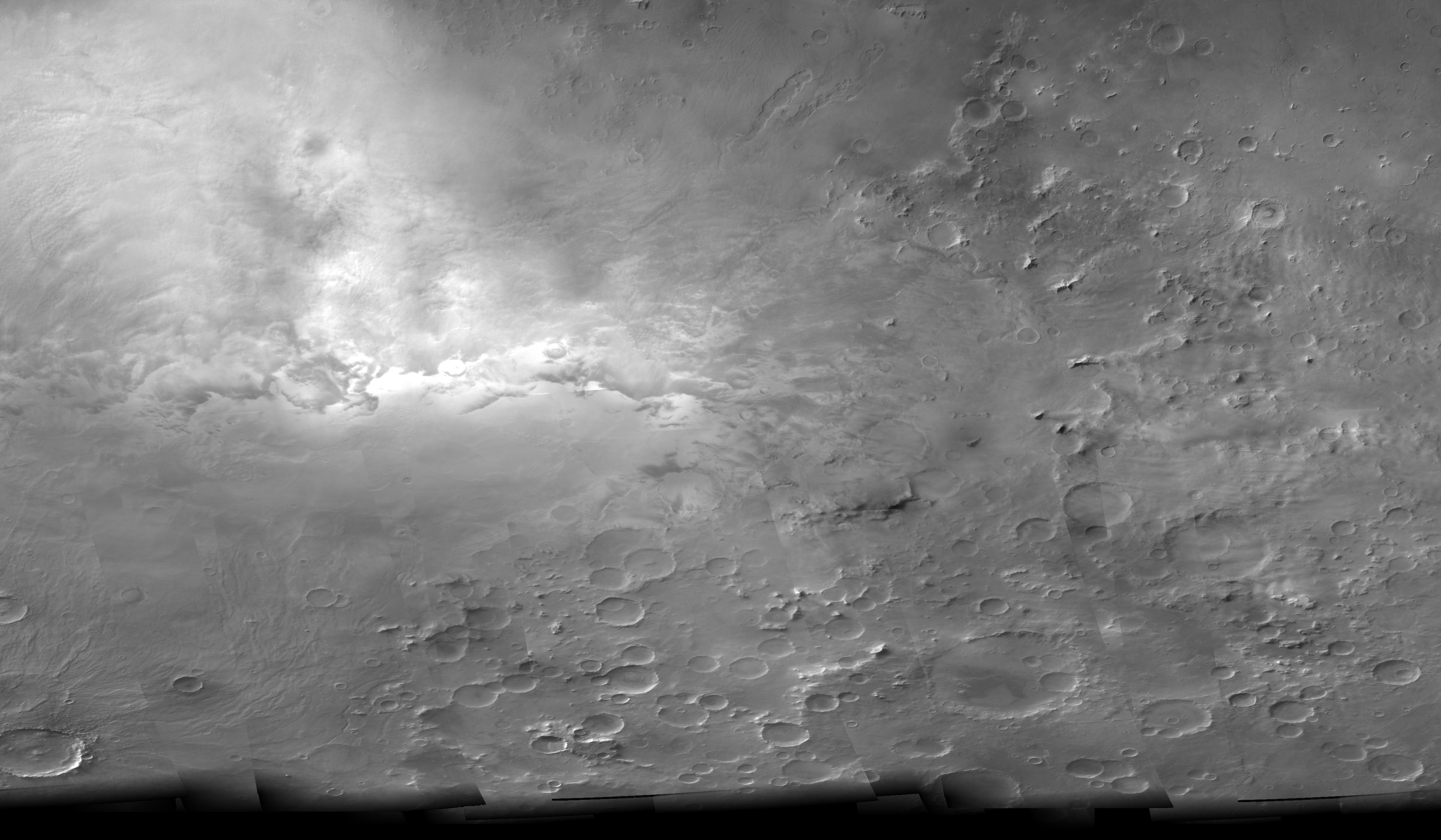 Hellas Planitia